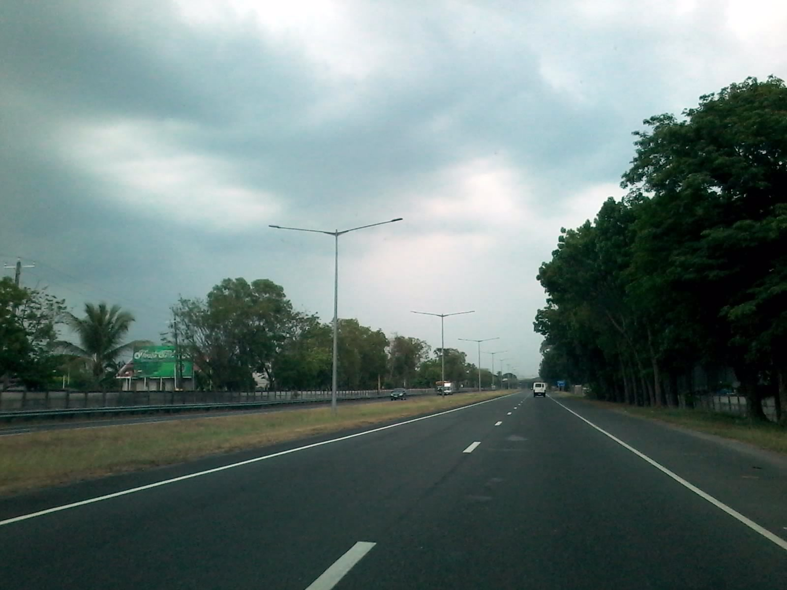 Tabang Spur Road of North Luzon Expressway (NLEx), heading east towards the NLEx Main